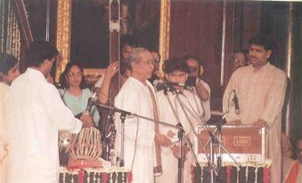 Sudhir Nayak- with Pandithji Parliment